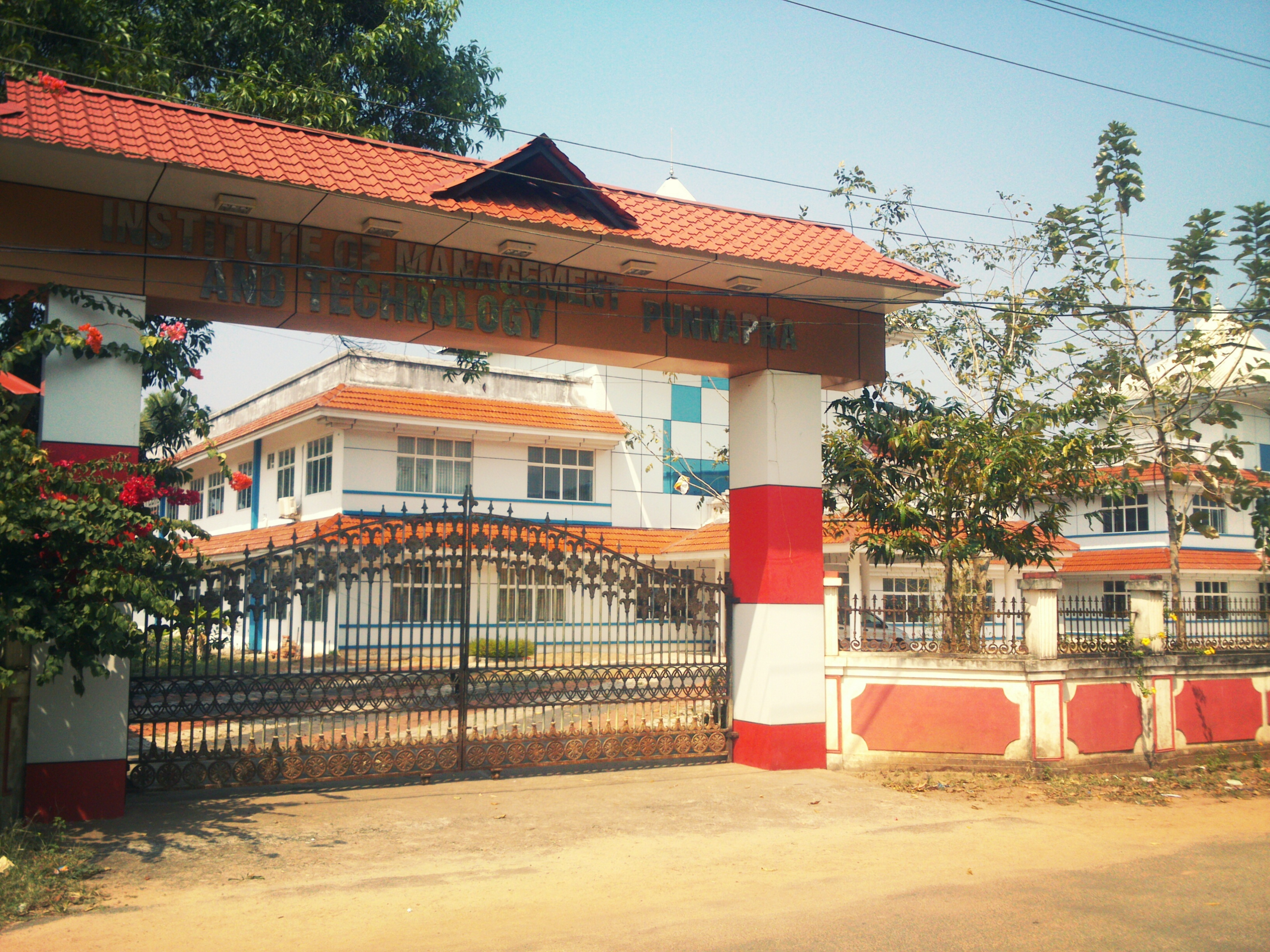 Institute of Management and Technology Punnapra